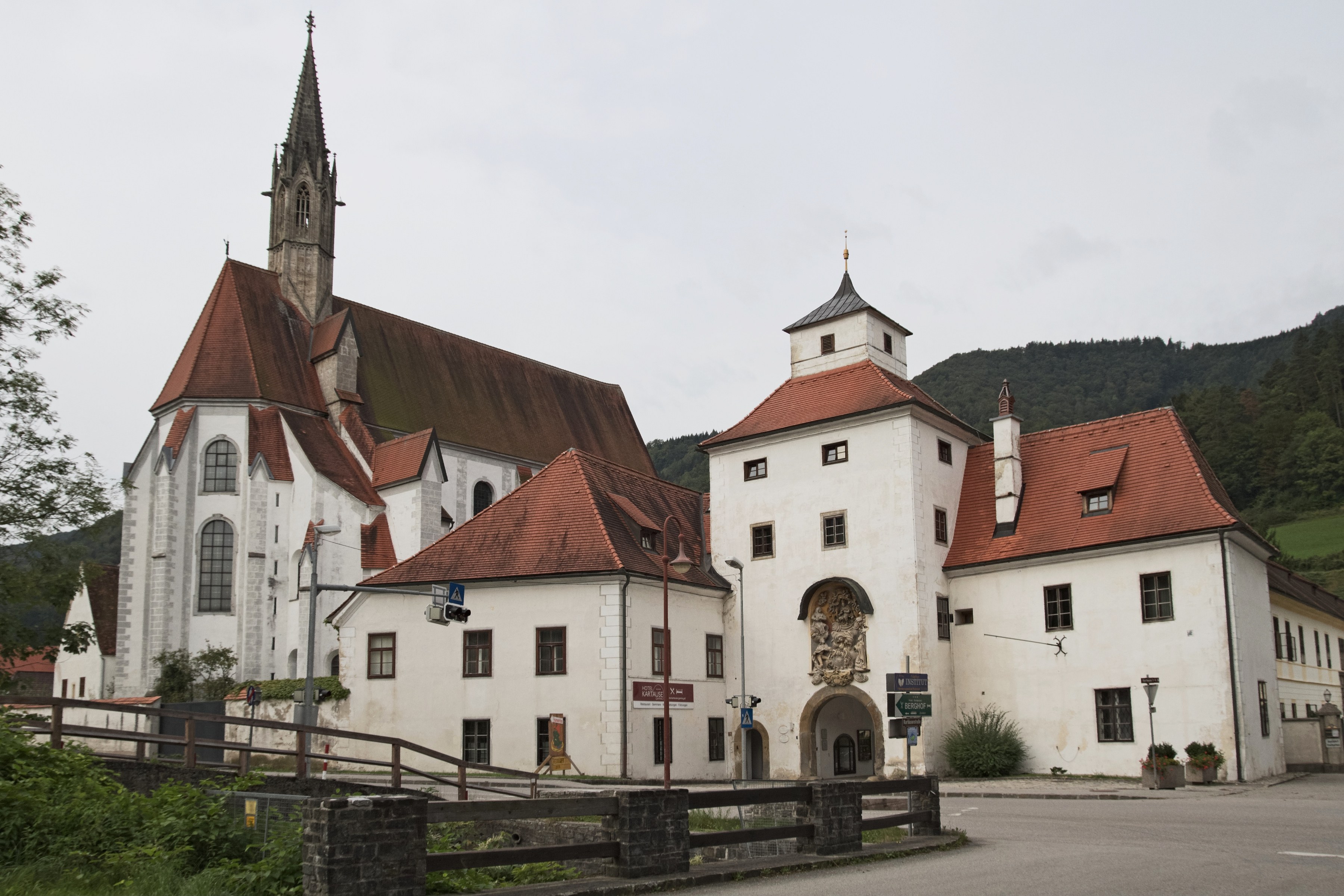 Gaming Charterhouse, streetside view